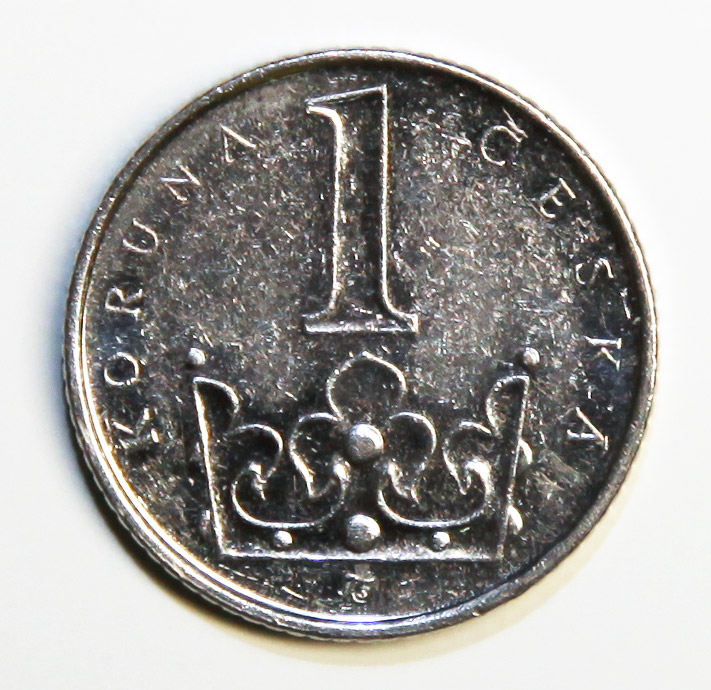 CZK 1 coin